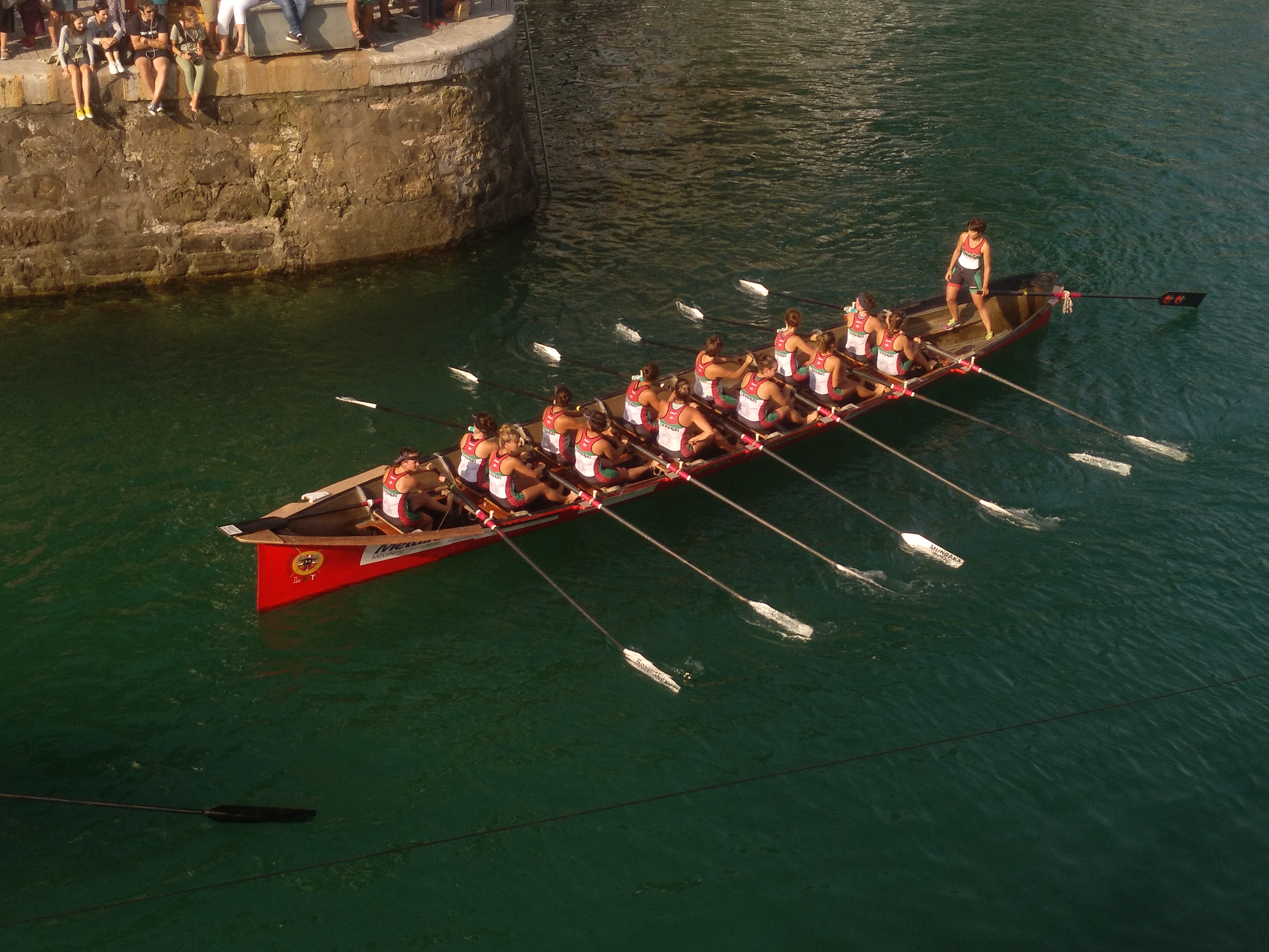 Lapurdiko AT, women, Flag of La Concha, 2018